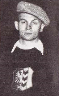 Erwin Lichnofsky. Ice hockey player, known also as Johann Lichnowski or Johann Lichnovsky.